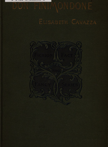 Don Finimondone: Calabrian Sketches (1892), By Elisabeth Cavazza